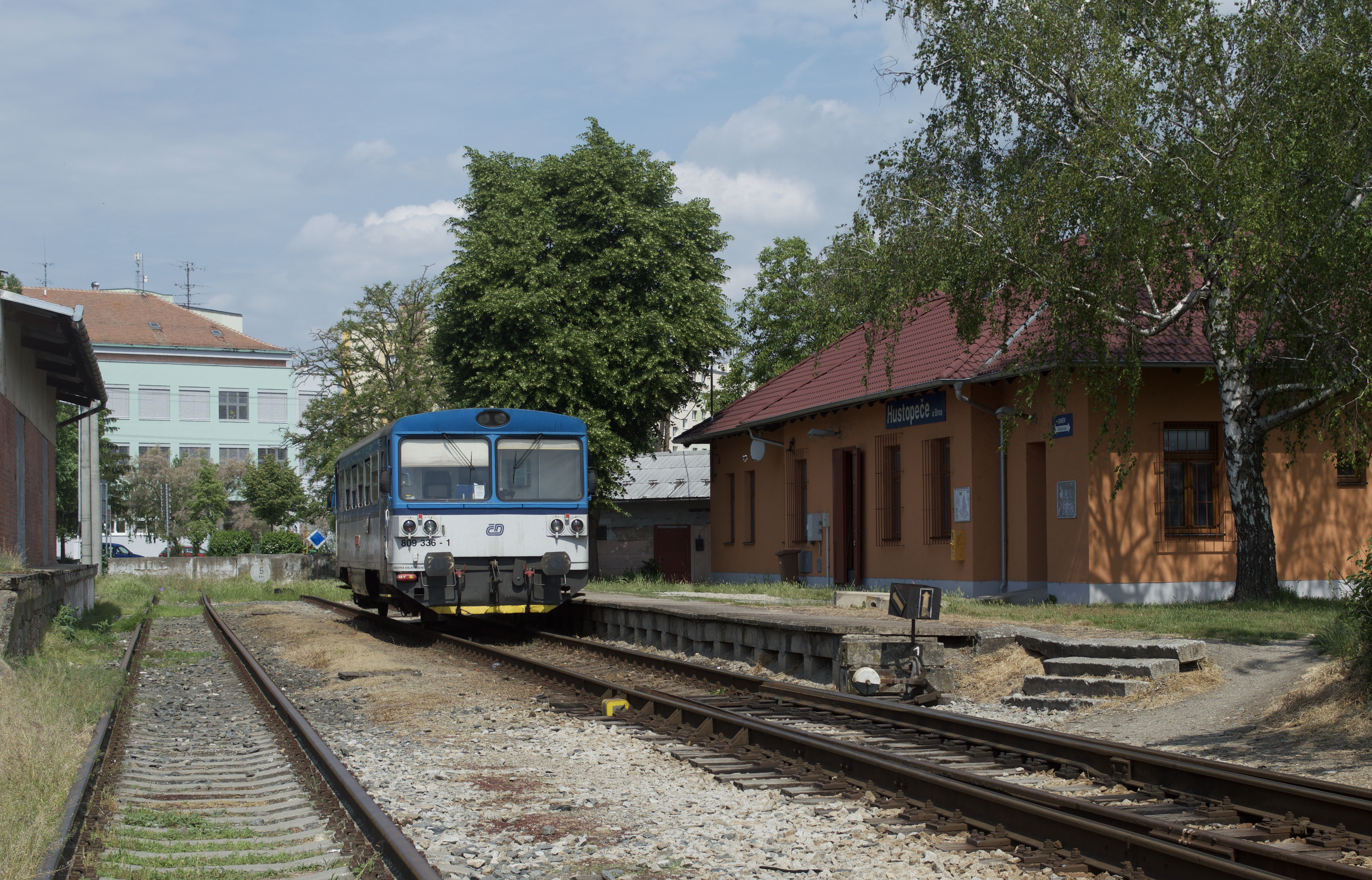 Final dead end branch of my Spring 2018 European trip was the 7km long line from Šakvice to Hustopeče u Brna. Running hourly but on just Monday to Friday, unusually it doesn't slot in with connections on the mainline between Brno and Břeclav. To save an hour, it was quicker to take a bus in one direction. Train seen here is Os14616, 11:48 Hustopeče u Brna to Šakvice on 14 May 2018.